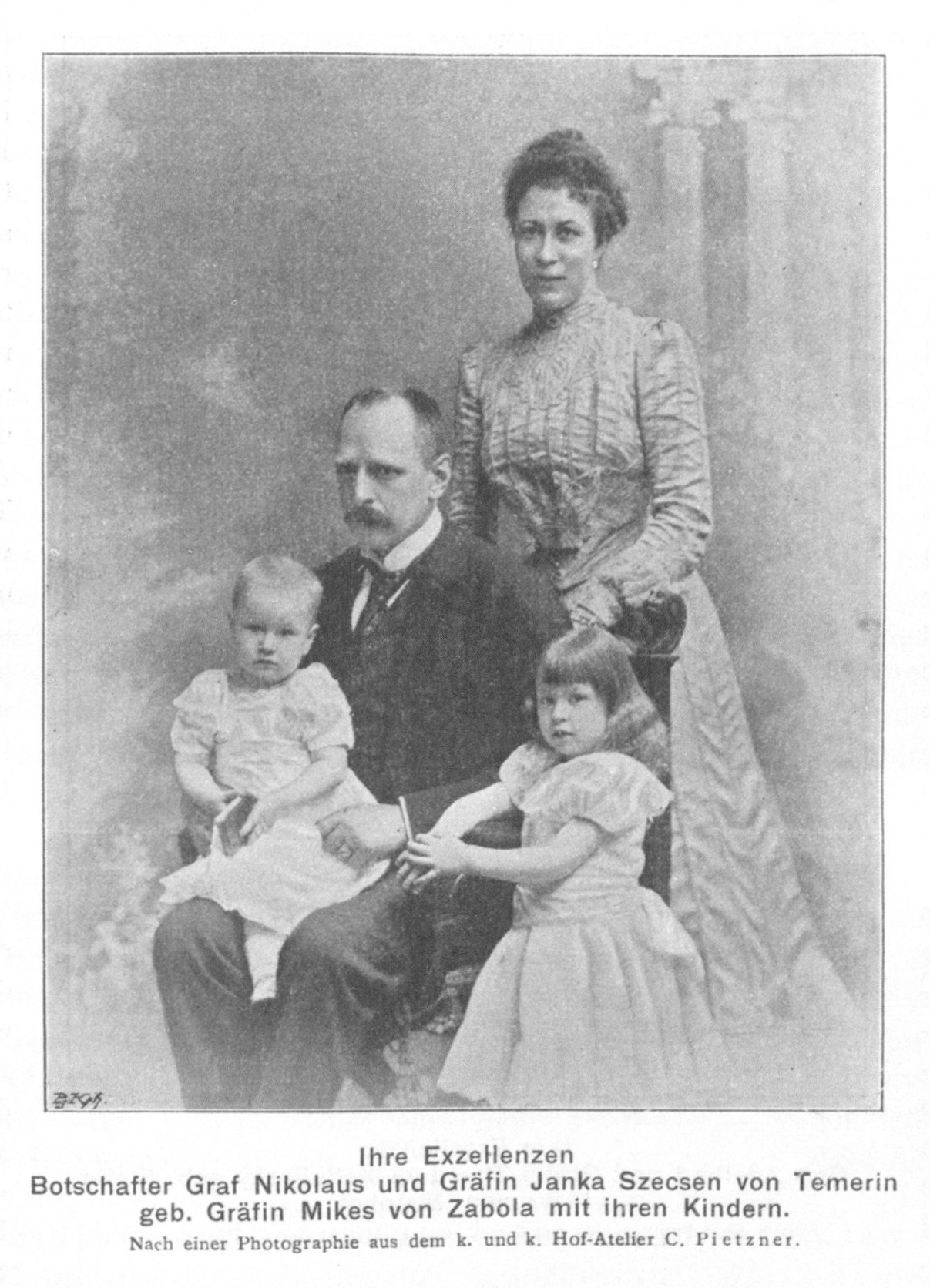 Portrait of Count Nikolaus Szécsen von Temerin (1857-1926), Hungarian diplomat, with his wife and children